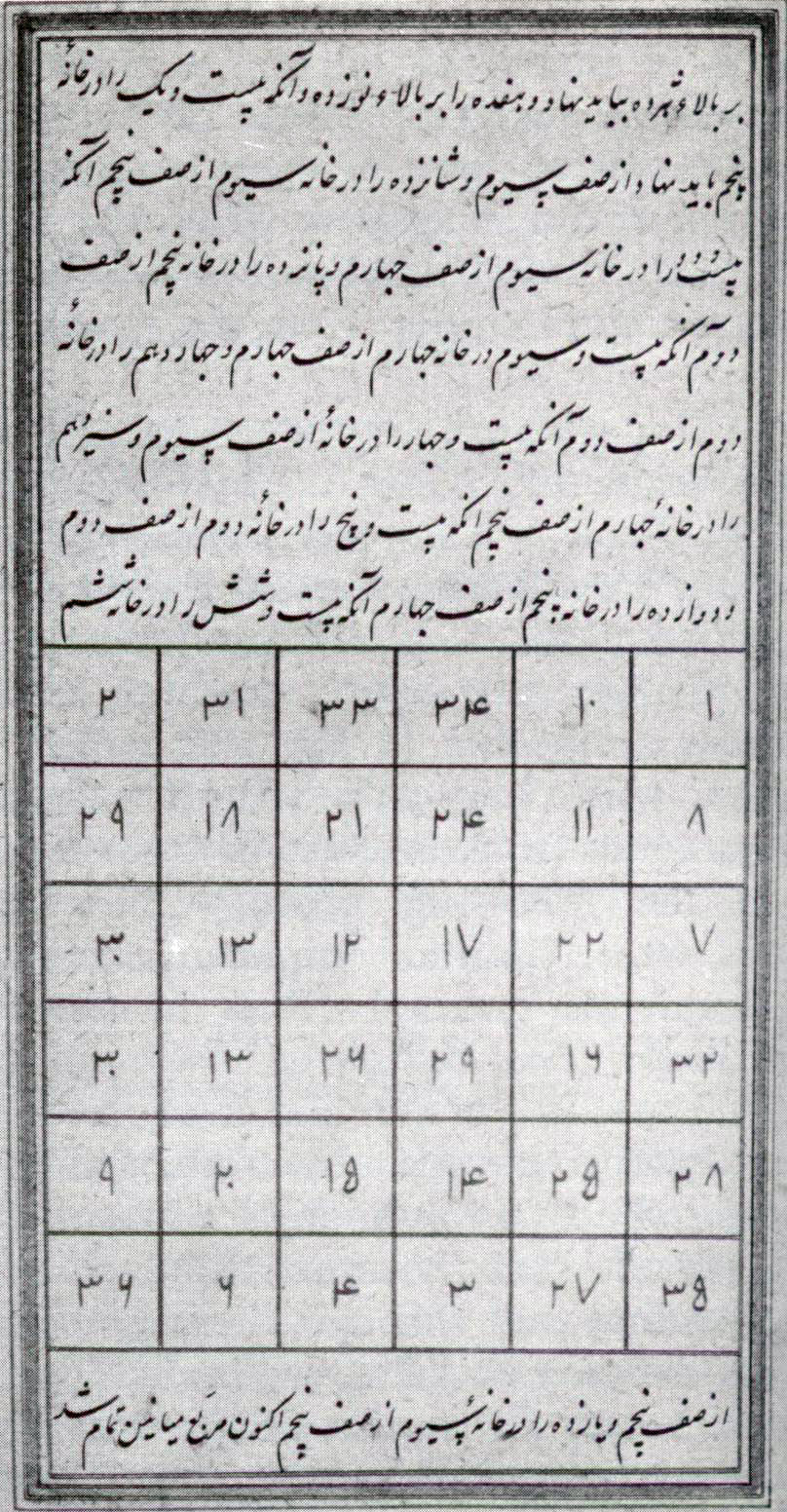 Magic square from 10th century AH (16th century AD) Persian Book of Wonders in the Egyptian National Library, Cairo.